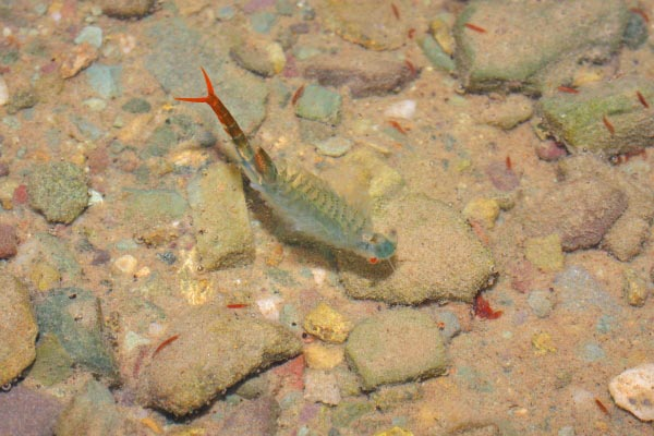 Chirocephalus diaphanus carinatus, Mountain lake Golina, Vevcani, Macedonia